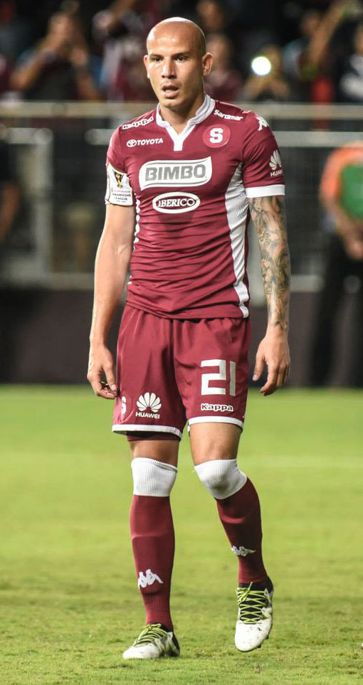 Anllel Porras playing for Saprissa on October 29, 2016